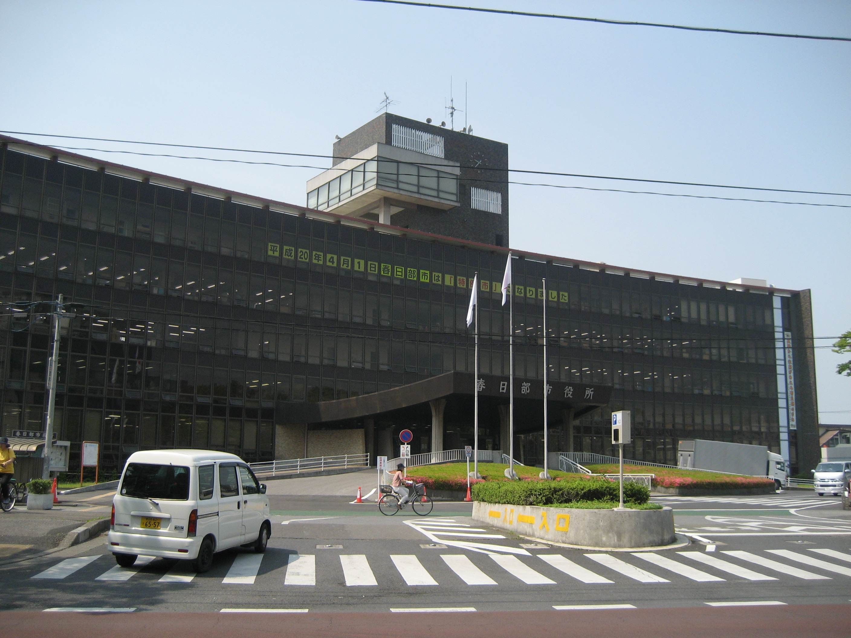 Kasukabe City Hall